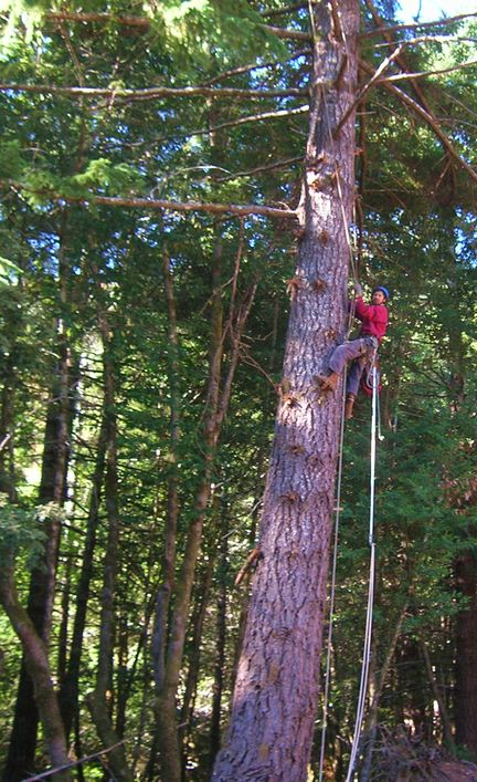 Volunteer climbing high into Douglas Fir to collect native seeds for forest restoration on Mattole River